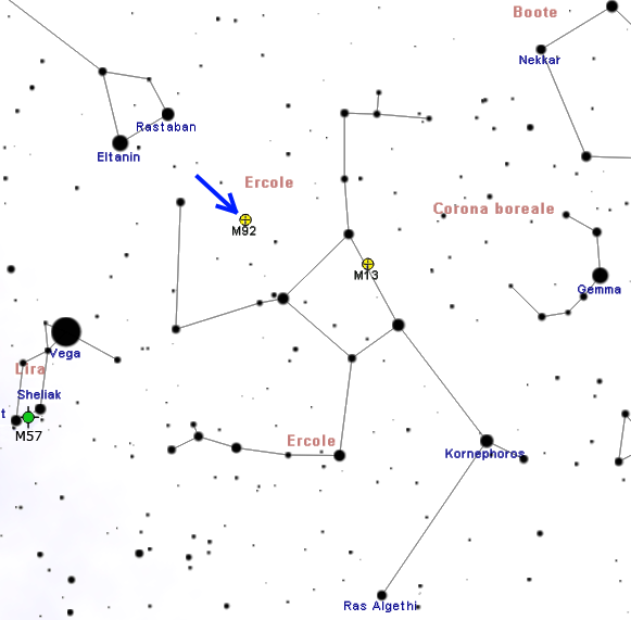 Map of M92